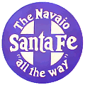 "Drumhead" logo from the ATSF Navajo passenger train.